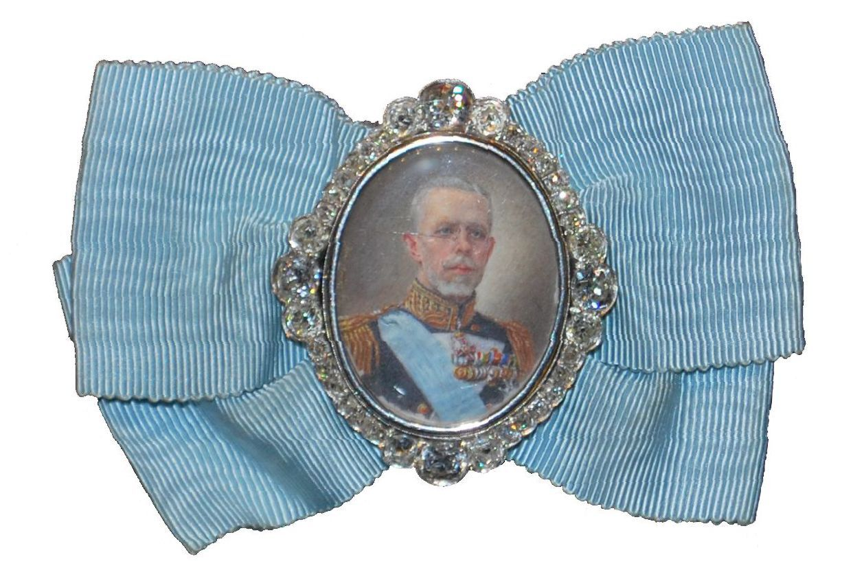 Royal Family Order of King Gustaf V of Sweden, insignia beloning to Crown Princess Märtha of Norway. Exhibited as part of "Royal Journeys 1905–2005" in The National Museum of Art, Architecture and Design, Oslo.